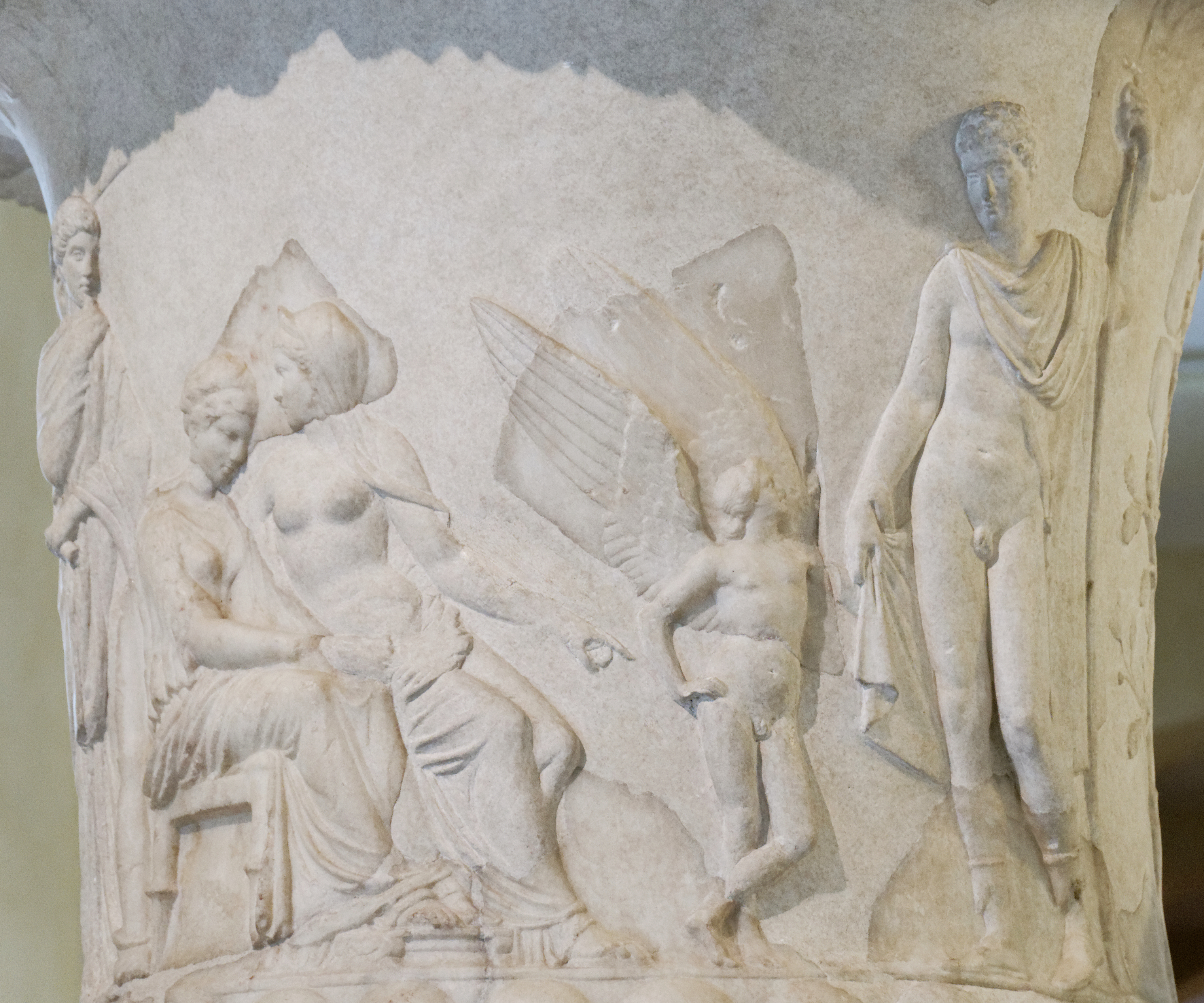 Krater with the wedding of Helen and Paris attended by Eros and the Three Graces. Roman artwork.